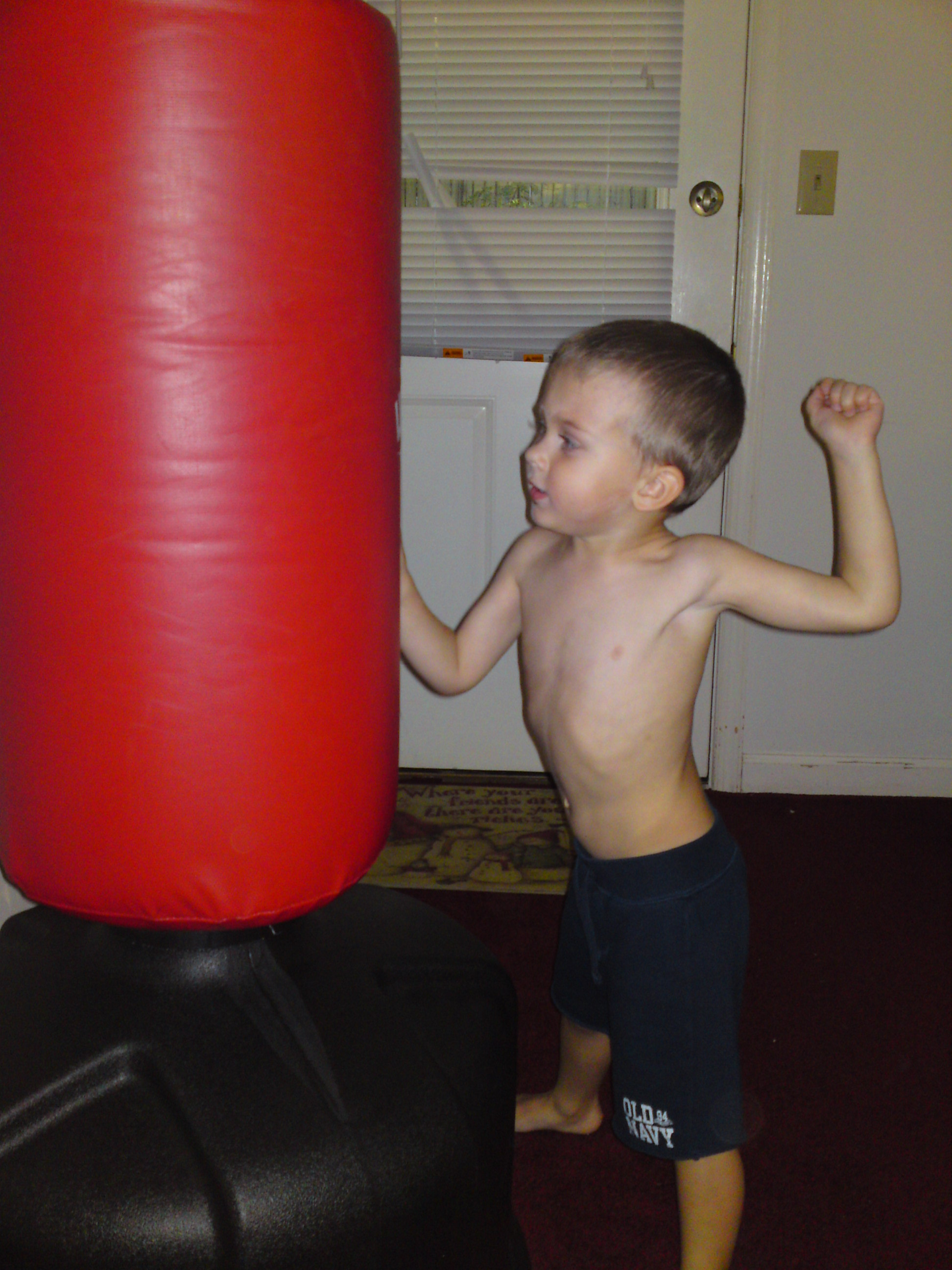 Morning beat fitness exercise. Courtesy of Sergey.